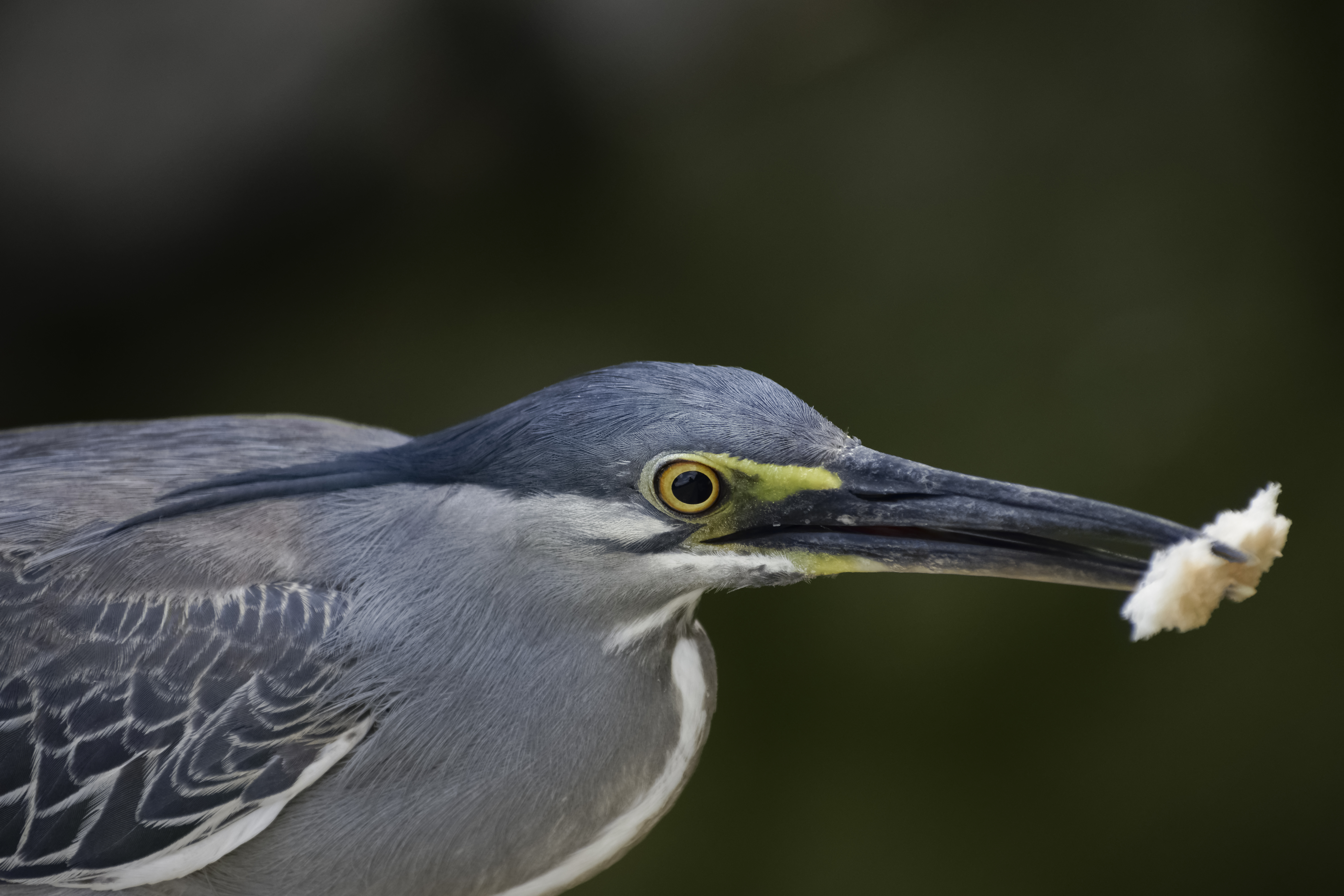 A Striated Heron (Butorides striata) waits for its best moment to set the lure!